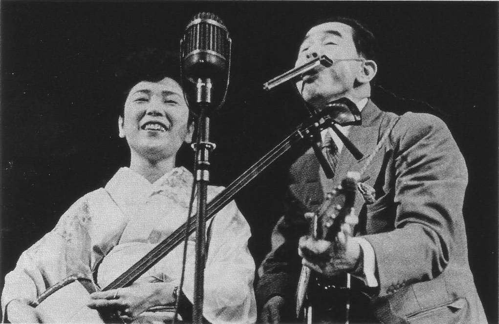 "Eiji Togami and Kimie Azuma" (Japanese Manzai performers).